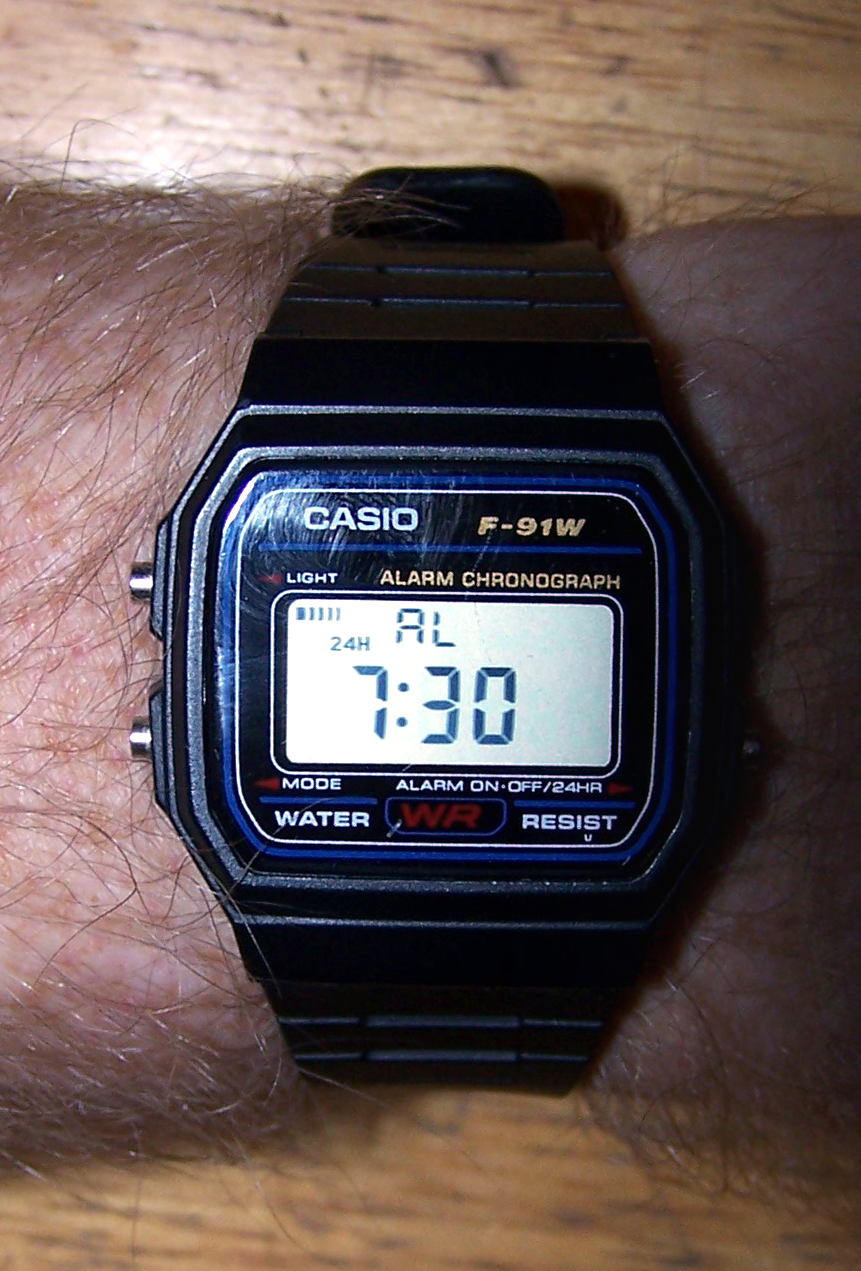 The Casio F91W -- the watch that gets you sent to Guantanamo